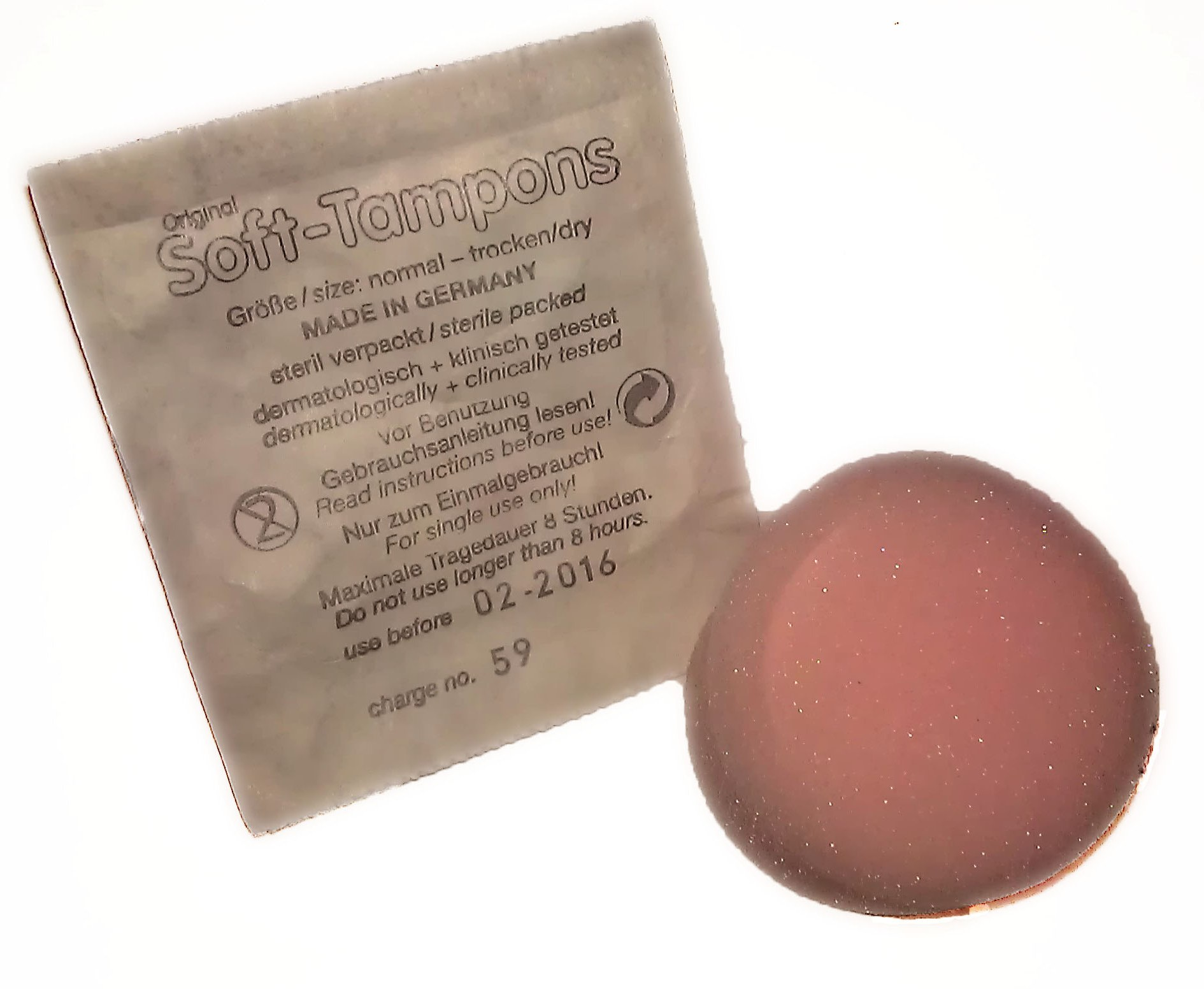 soft tampon with packing